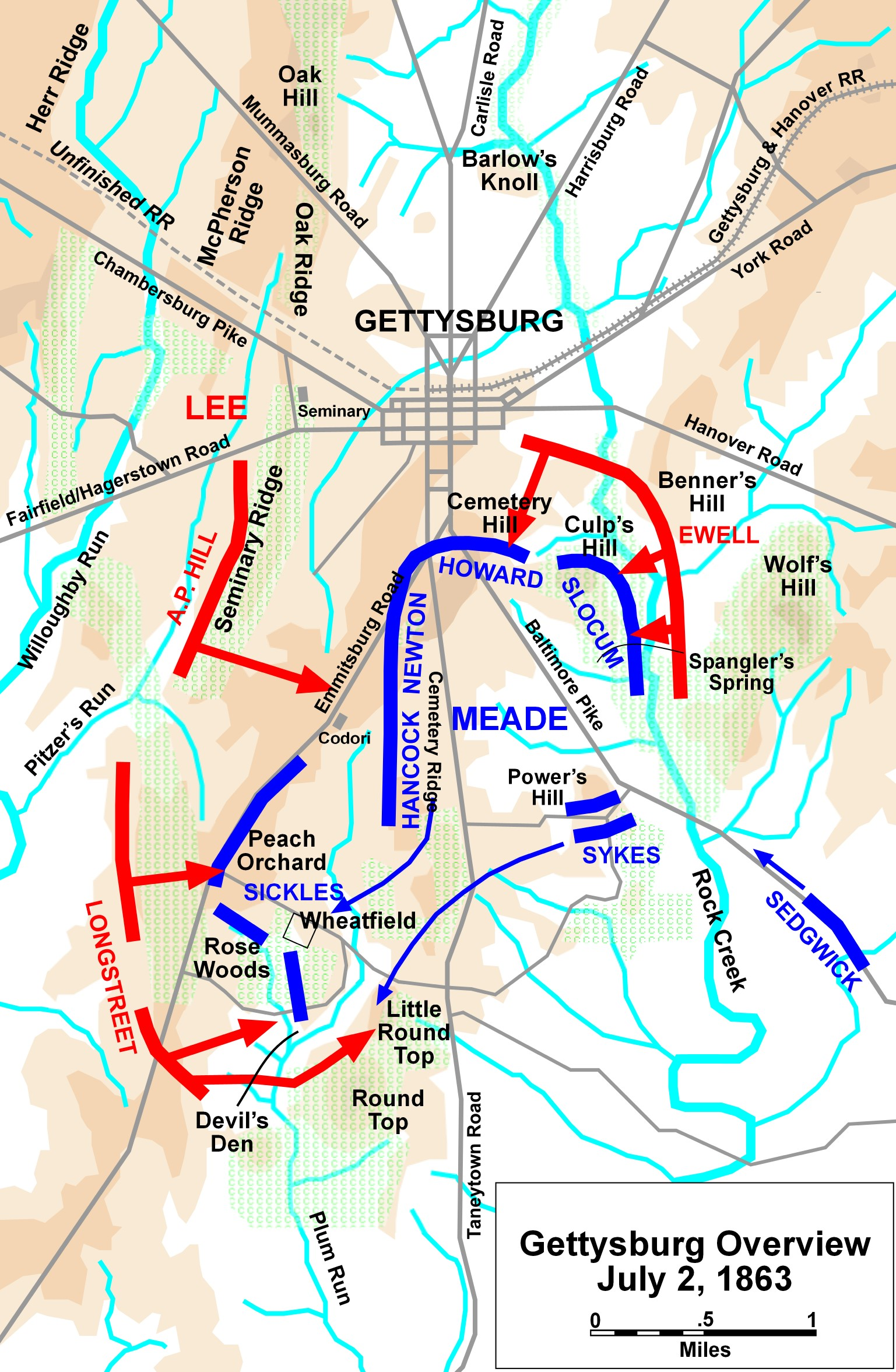 Action on July 2, 1863 at Gettysburg, Pa